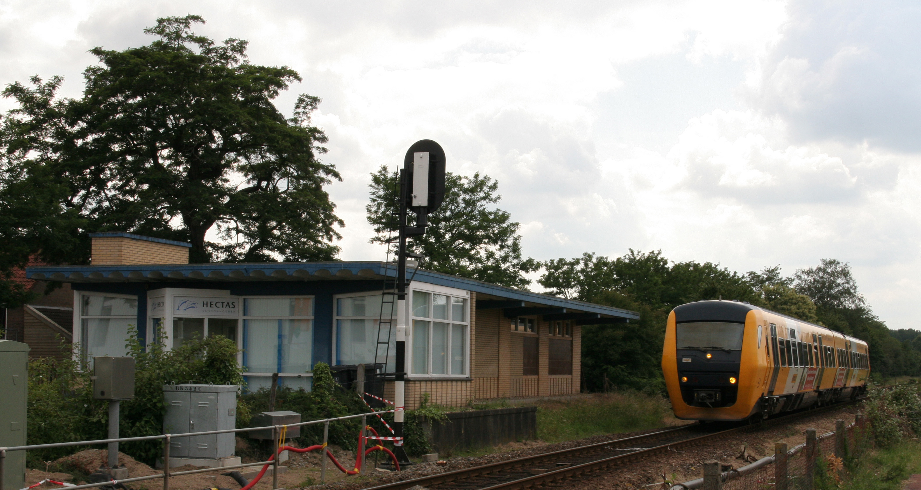 Station Doetinchem West